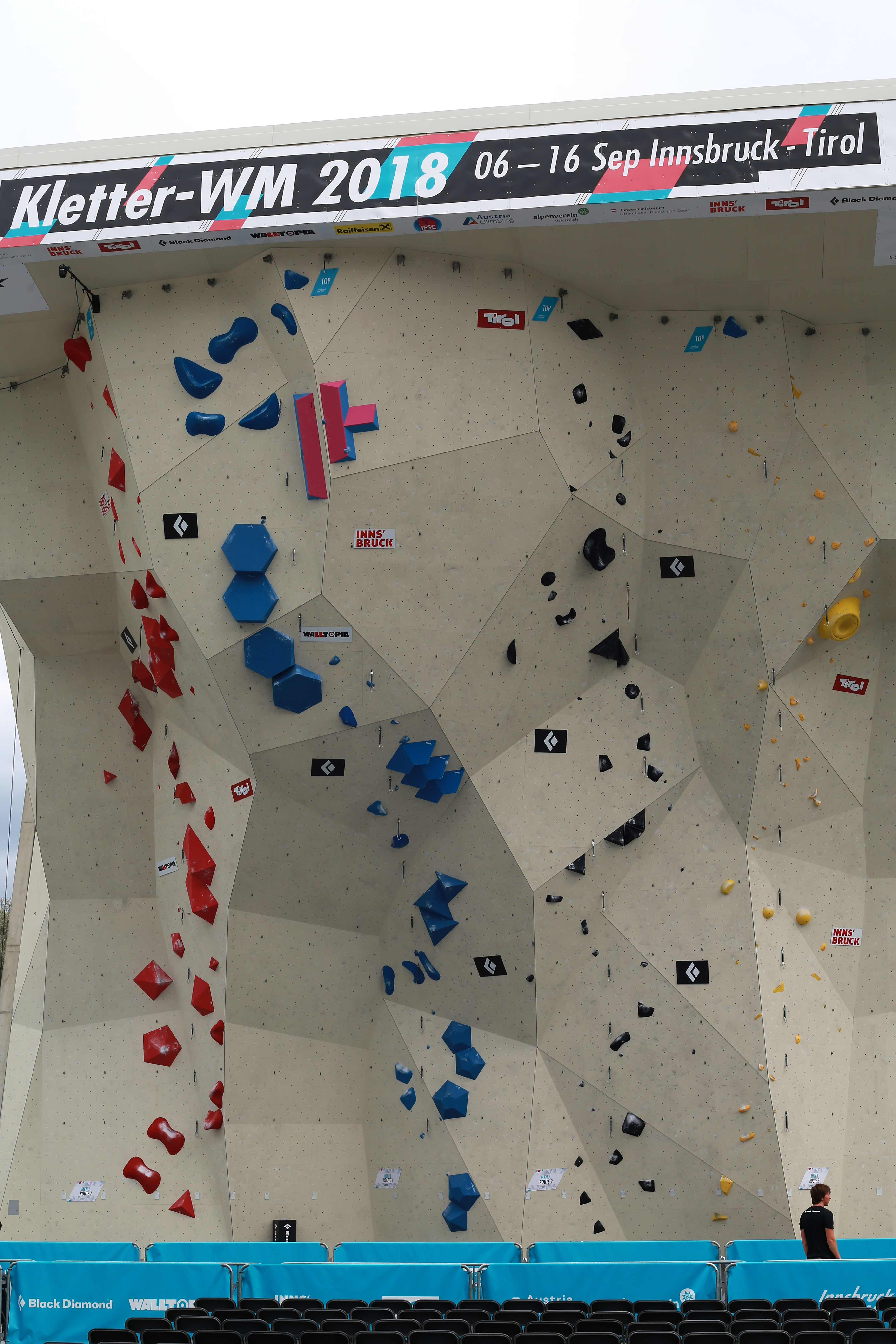 IFSC Climbing World Championships Innsbruck 2018 Qualification MEN lead